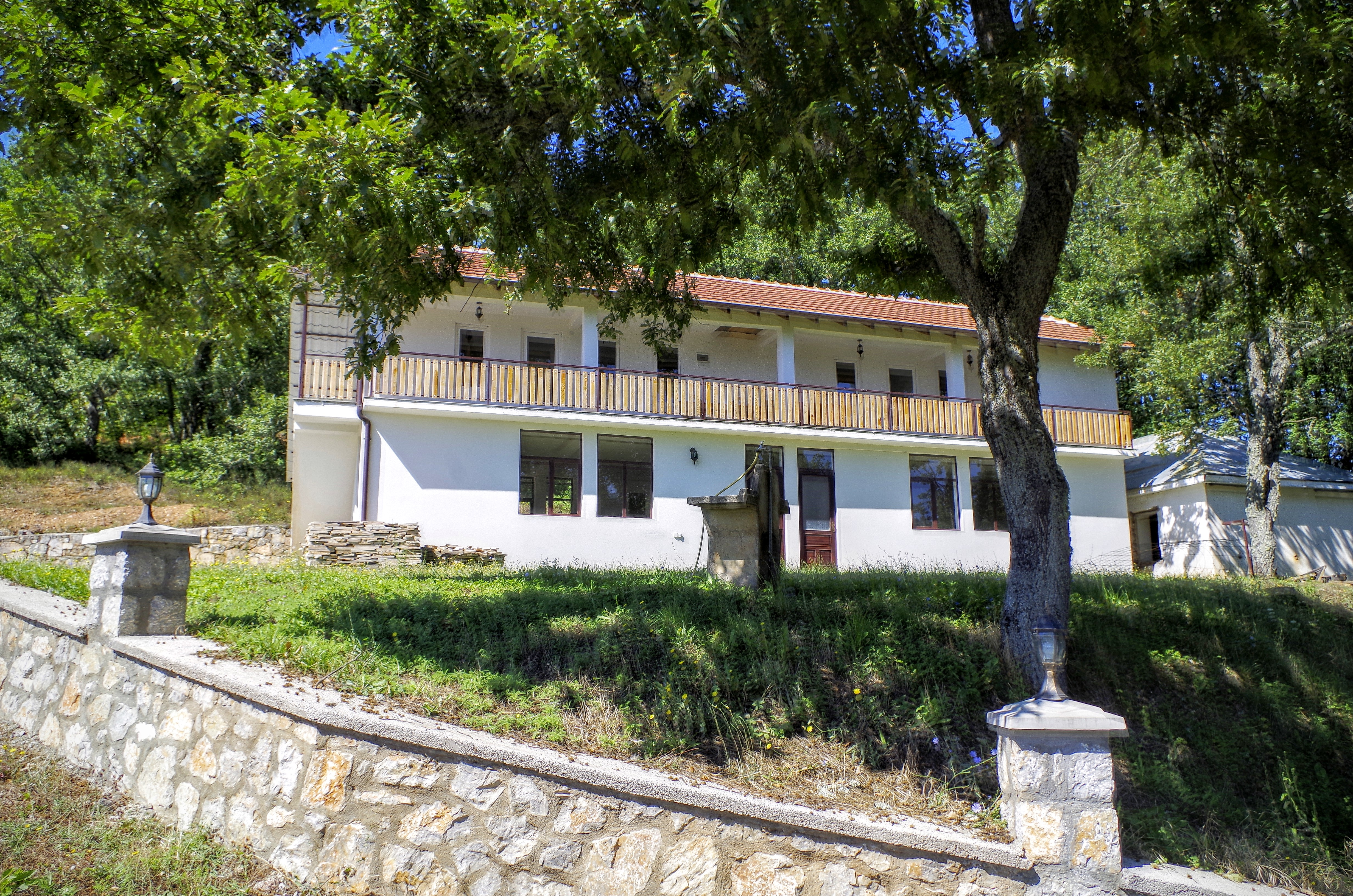 View of hospices of Zlesti Monastery in the village Zlesti, Macedonia